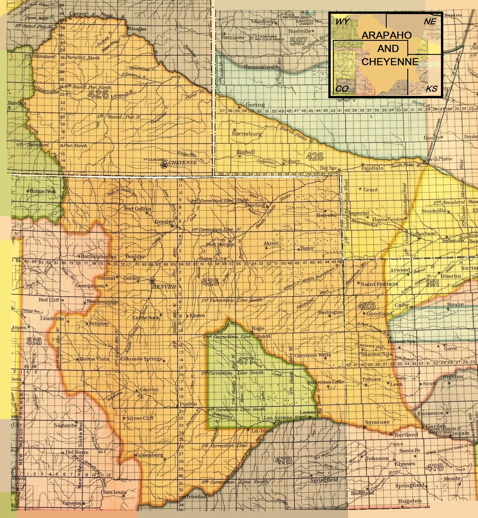 Map of the Arapaho and Cheyenne Indian territory as described in the Treaty of Fort Laramie (1851), Colorado